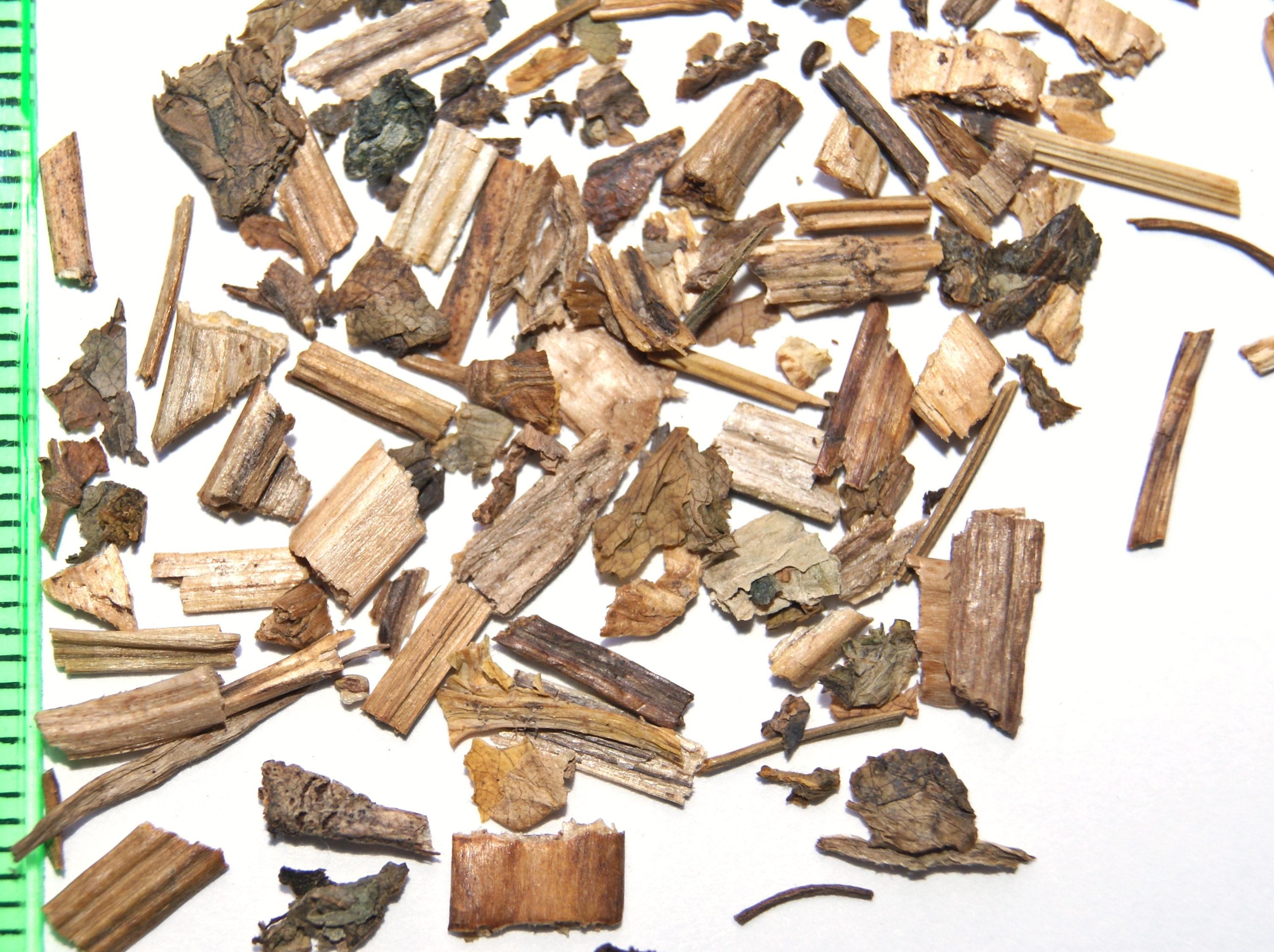 Chelidonium majus